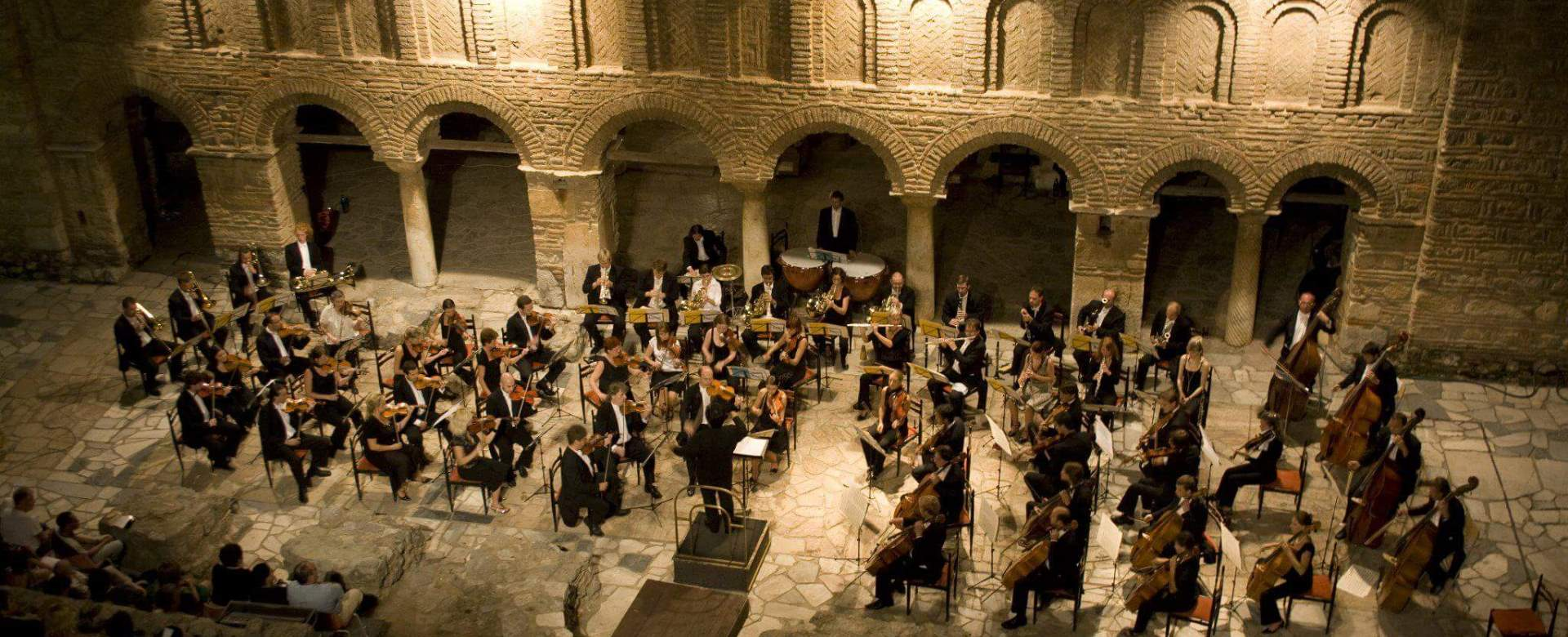 Bohemian Symphony Orchestra Prague concert in Ohrid, Macedonia, 2008